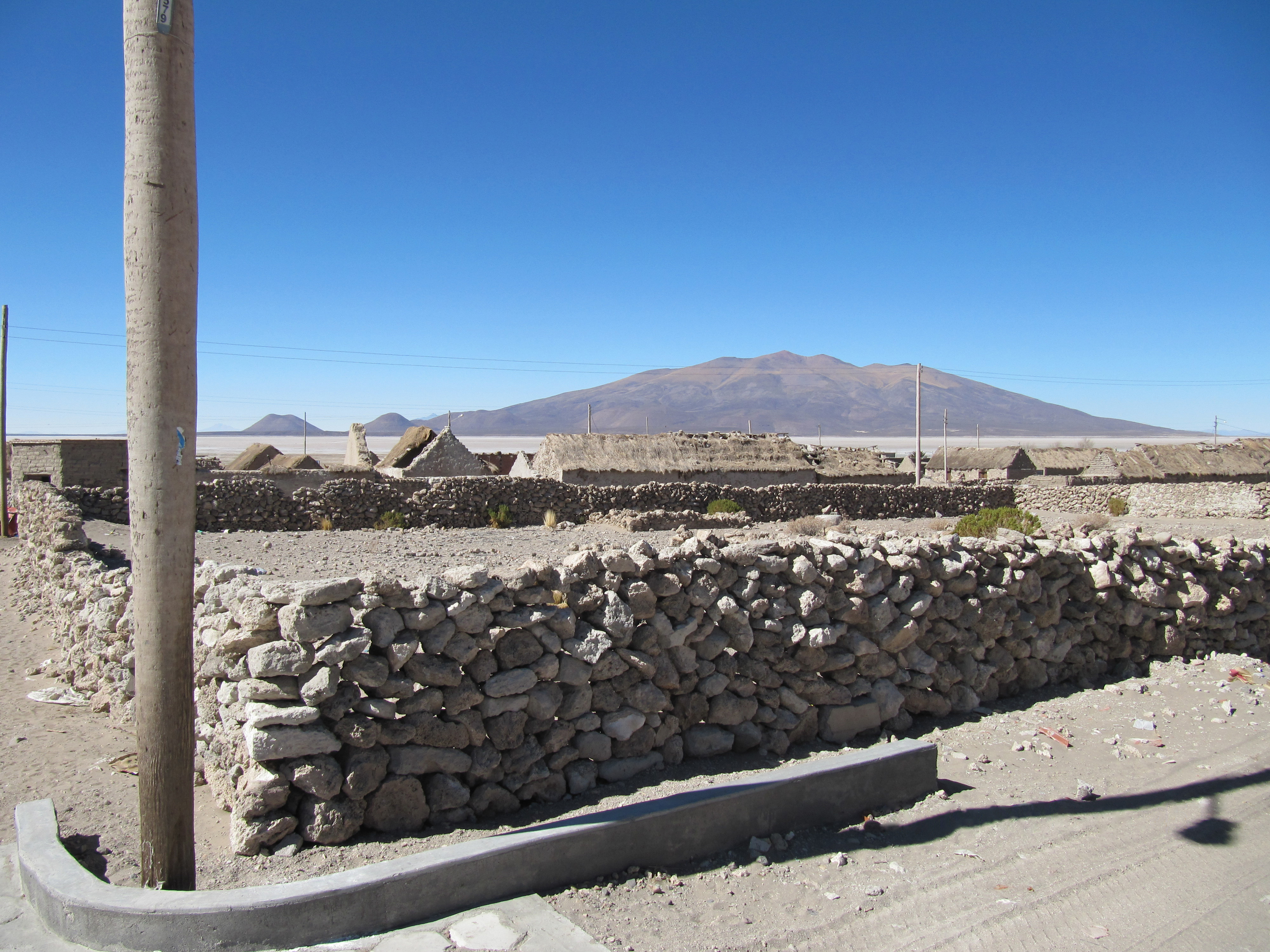 typical view of Villa Vitalina, an almost-ghost-village in Bolivia